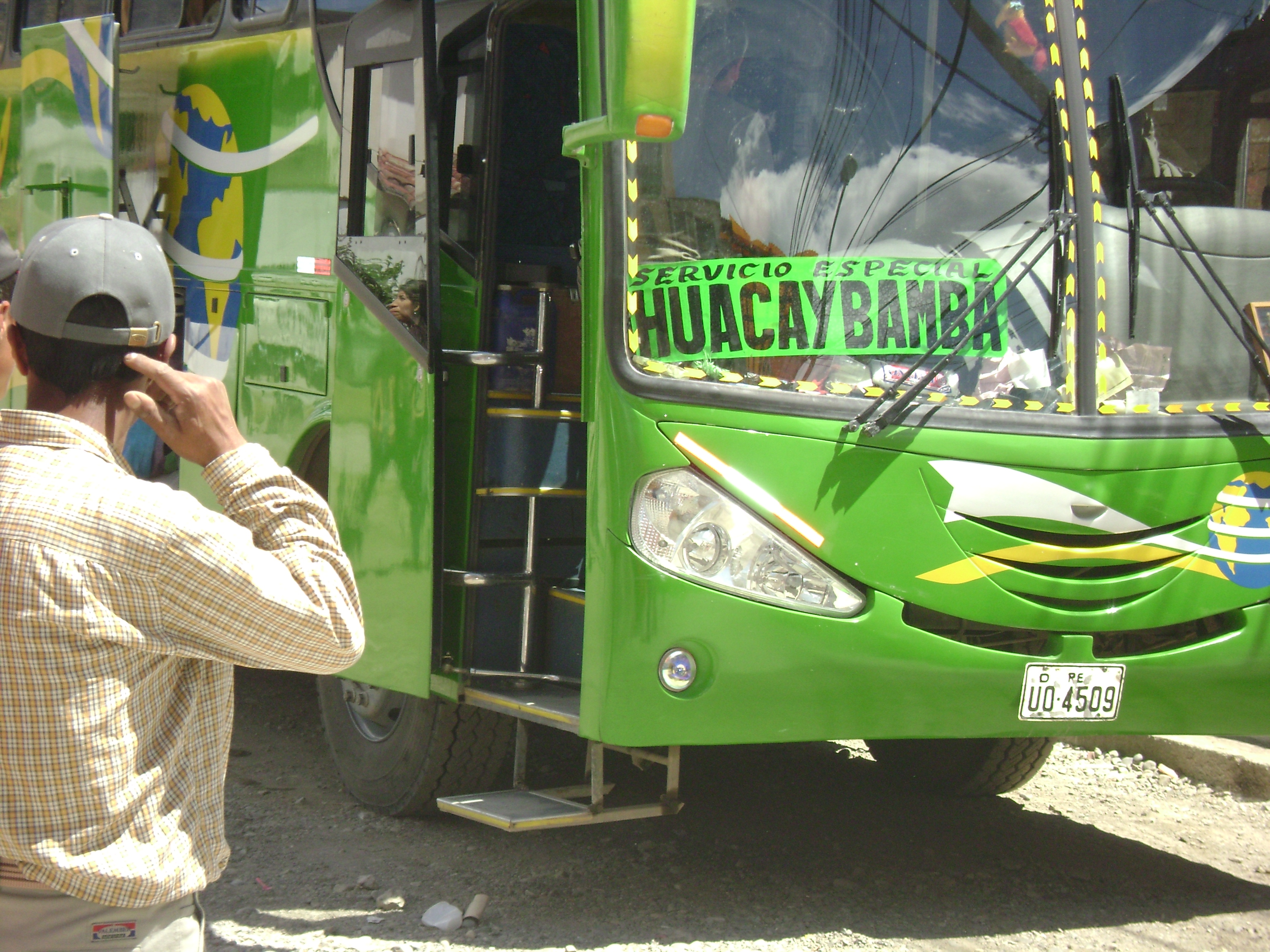 View of a bus to Huacaybamba (Huánuco-Perú) waiting for passengers in the city of Huaraz (Ancash-Perú)